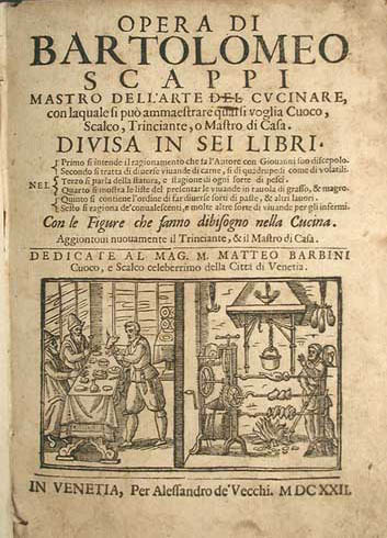 [Scappi, Bartolomeo] Opera di Bartolomeo Scappi Mastro dell'Arte del Cucinare, Venice: Alessandro de Vecchi, 1622